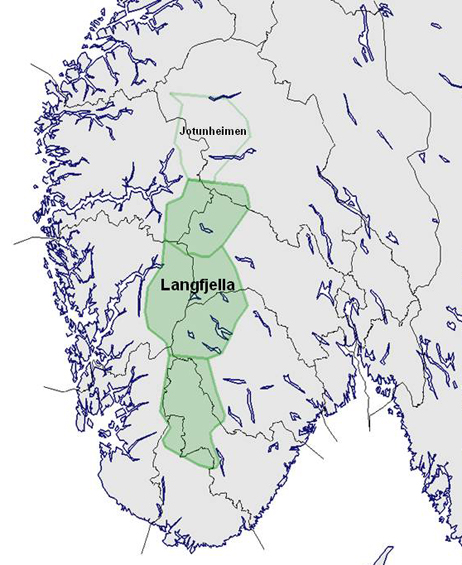 Map over the Norwegian group of mountain ranges called Langfjella